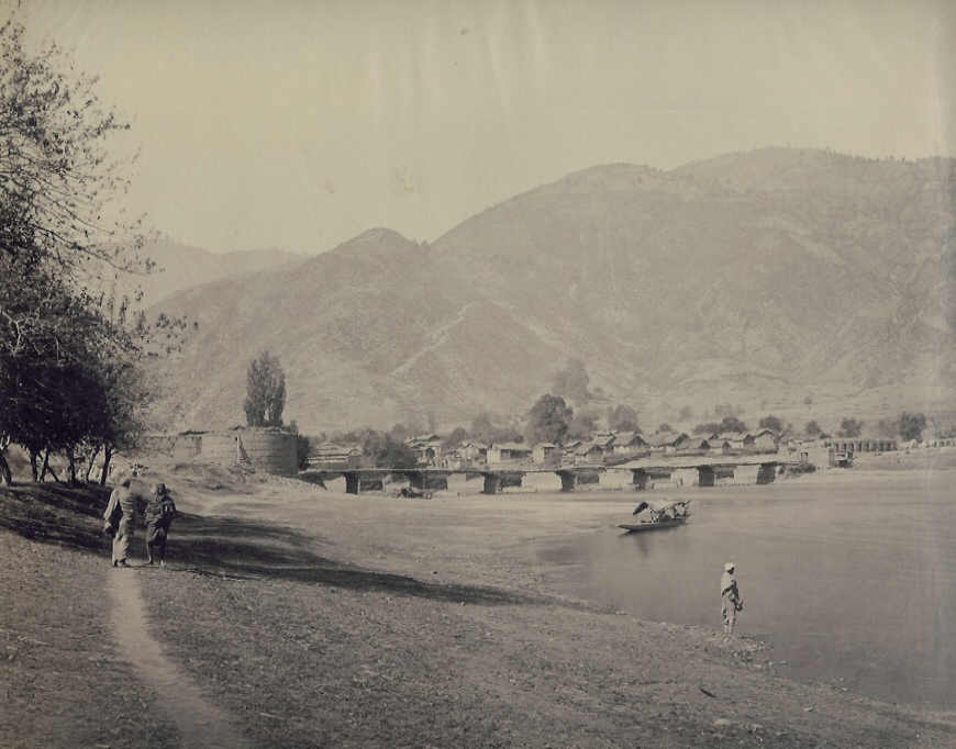 Albumen print 22 x 27.5 cm Part of a series of 10 photographs